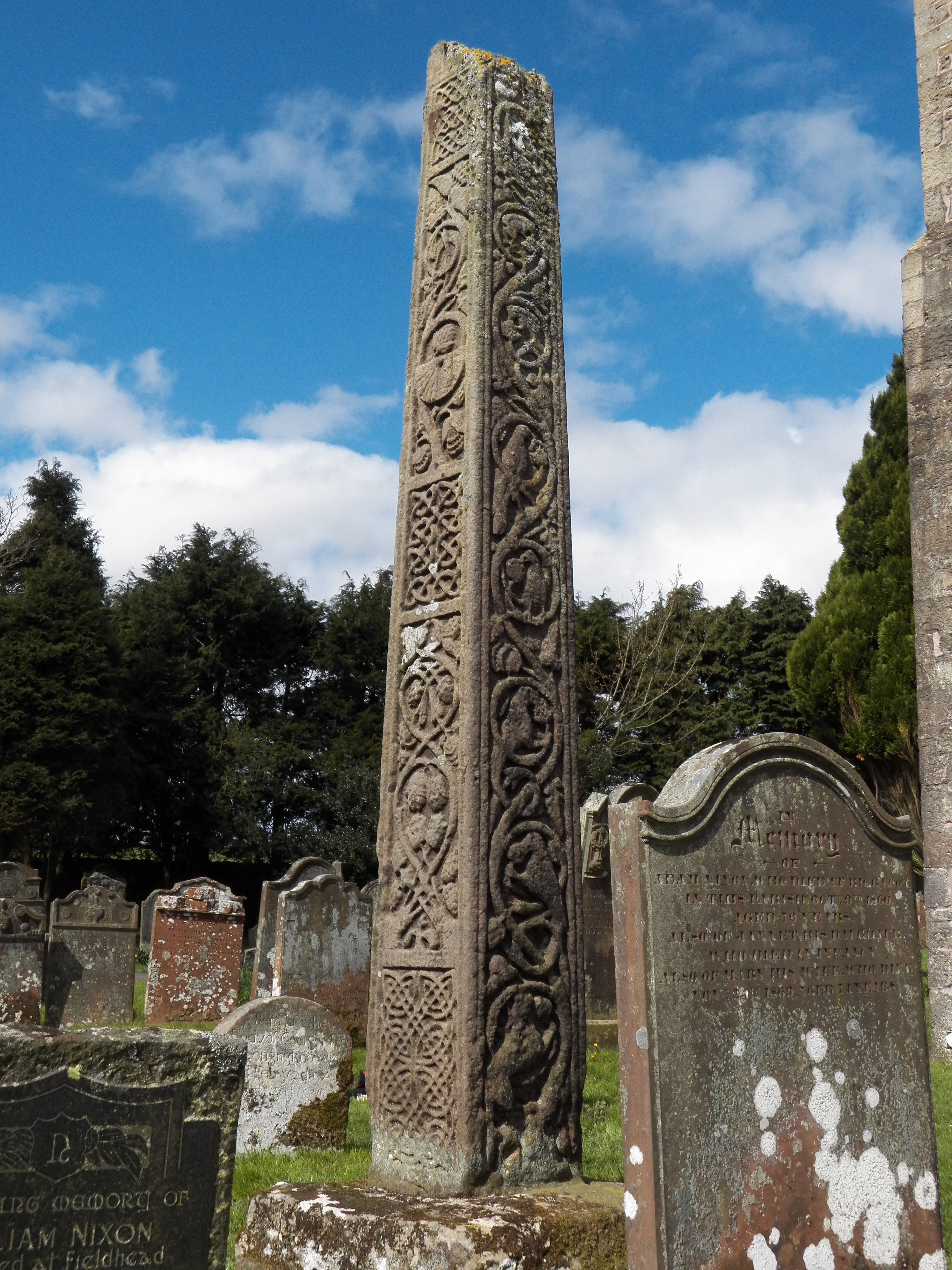 The famous Bewcastle cross, in midday spring sun, showing the south and east faces. The noted architectural and art historian Nikolaus Pevsner wrote..." The Crosses of Bewcastle and Ruthwell ....are the greatest achievement of their date in the whole of Europe..". The cross is dated AD 685 - 730, the later date date now being favoured. The cross is in the graveyard of the parish church.